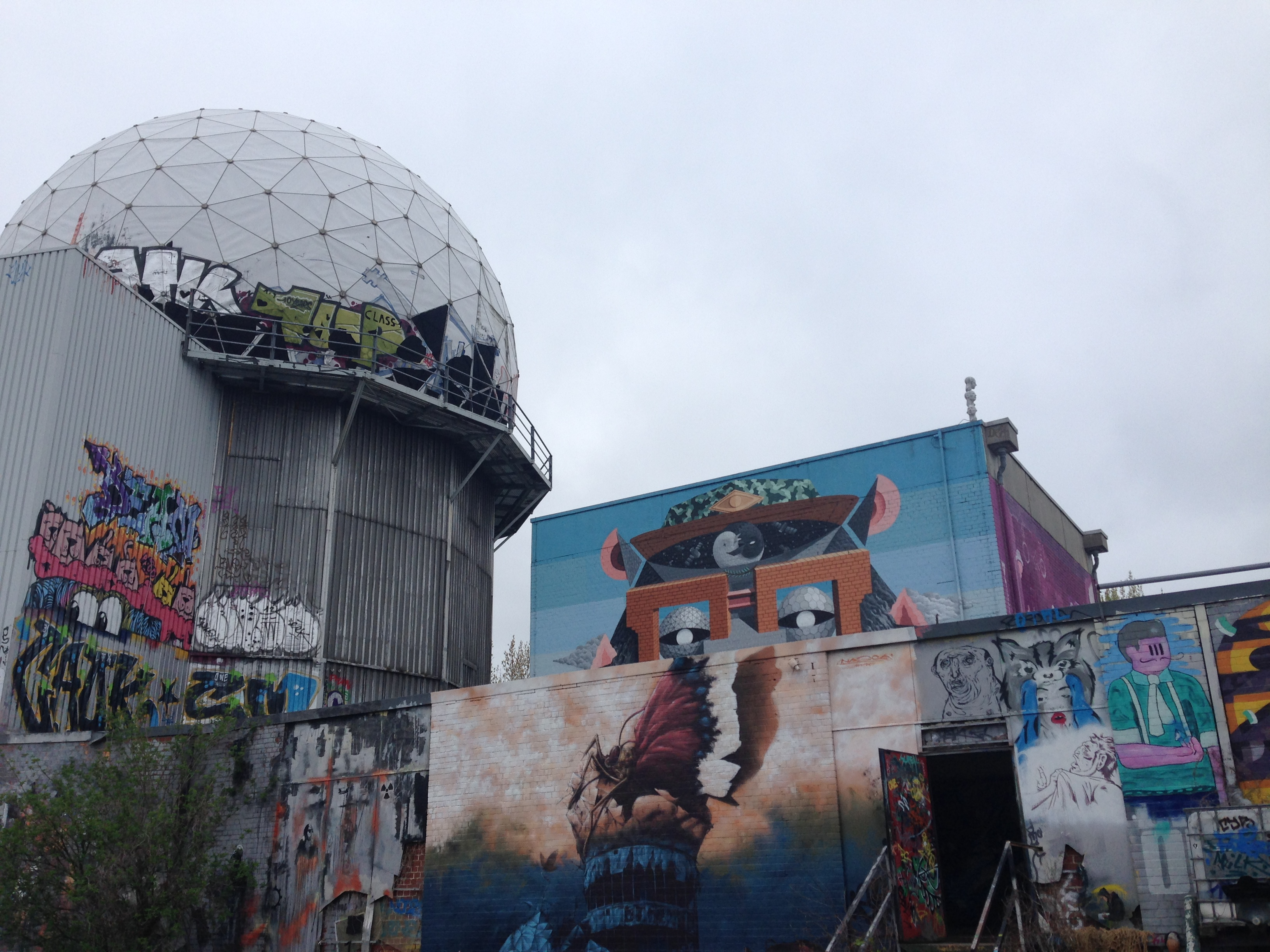 One of the several abandoned domes that housed a US listening station during the Cold War.